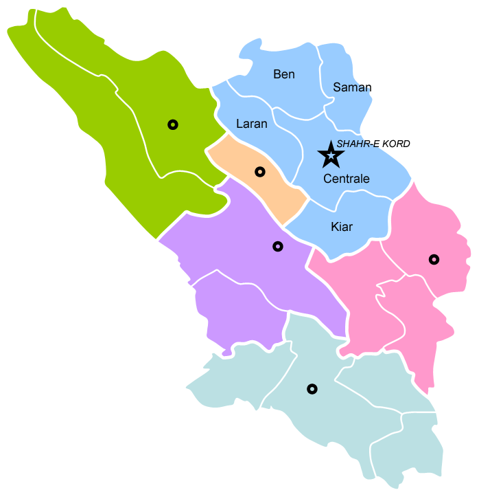 Map of Shahr-e Kord sharestan in Chahar Mahal and Bakhtiari province, Iran